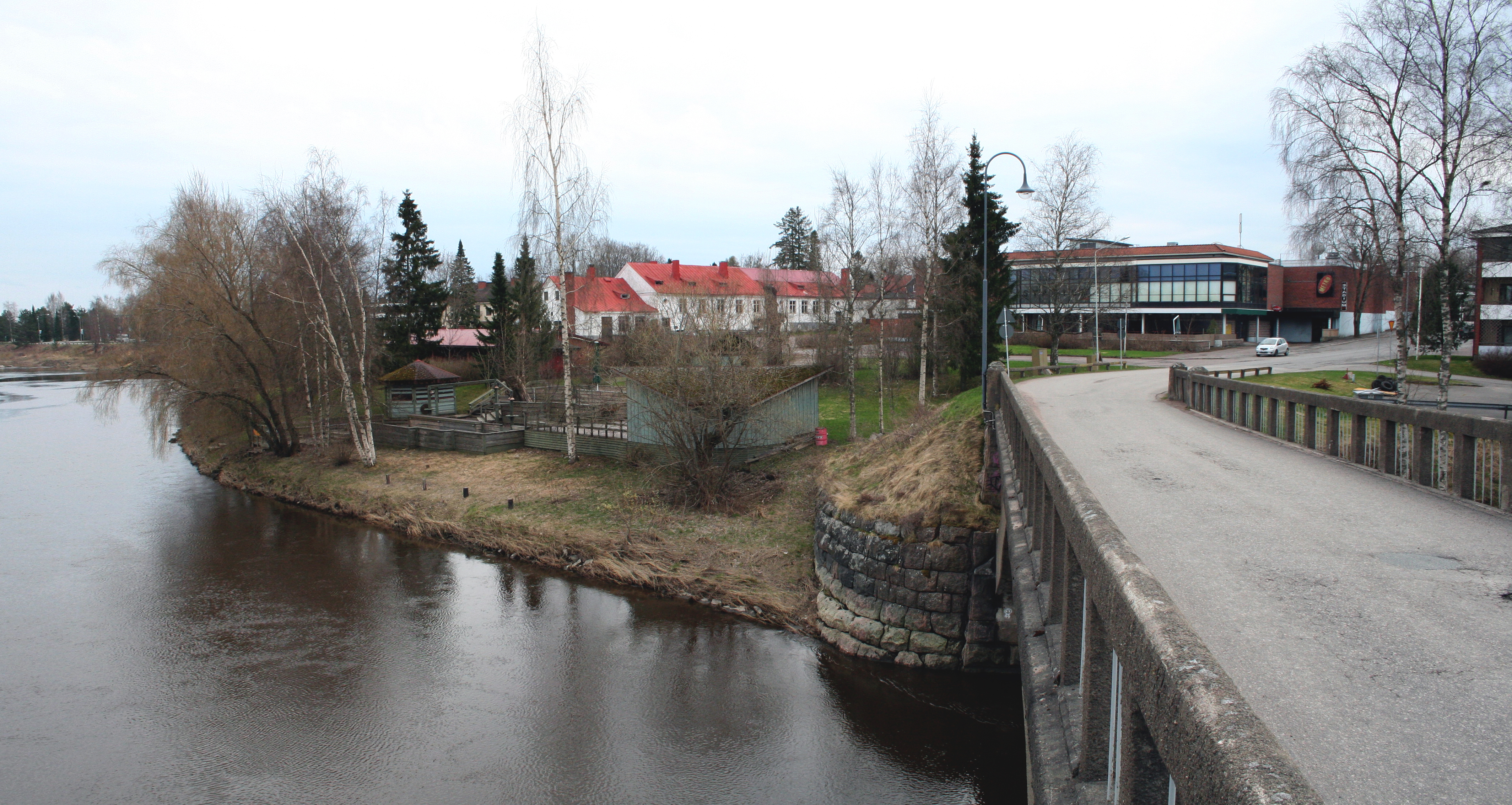 Juustola seen from bridge Tulkkila at Kokemäki, Finnland